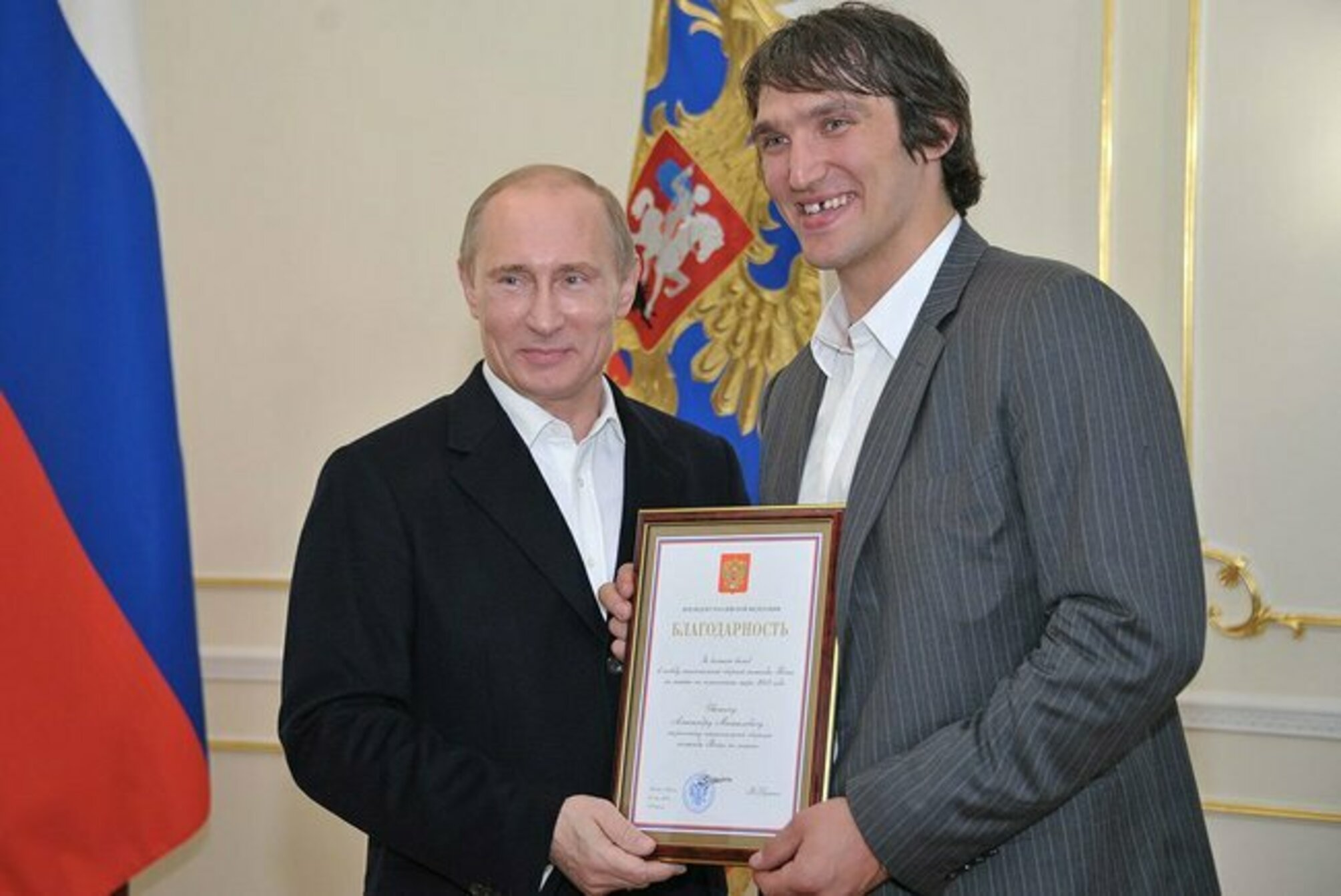 Alexander Ovechkin 2012